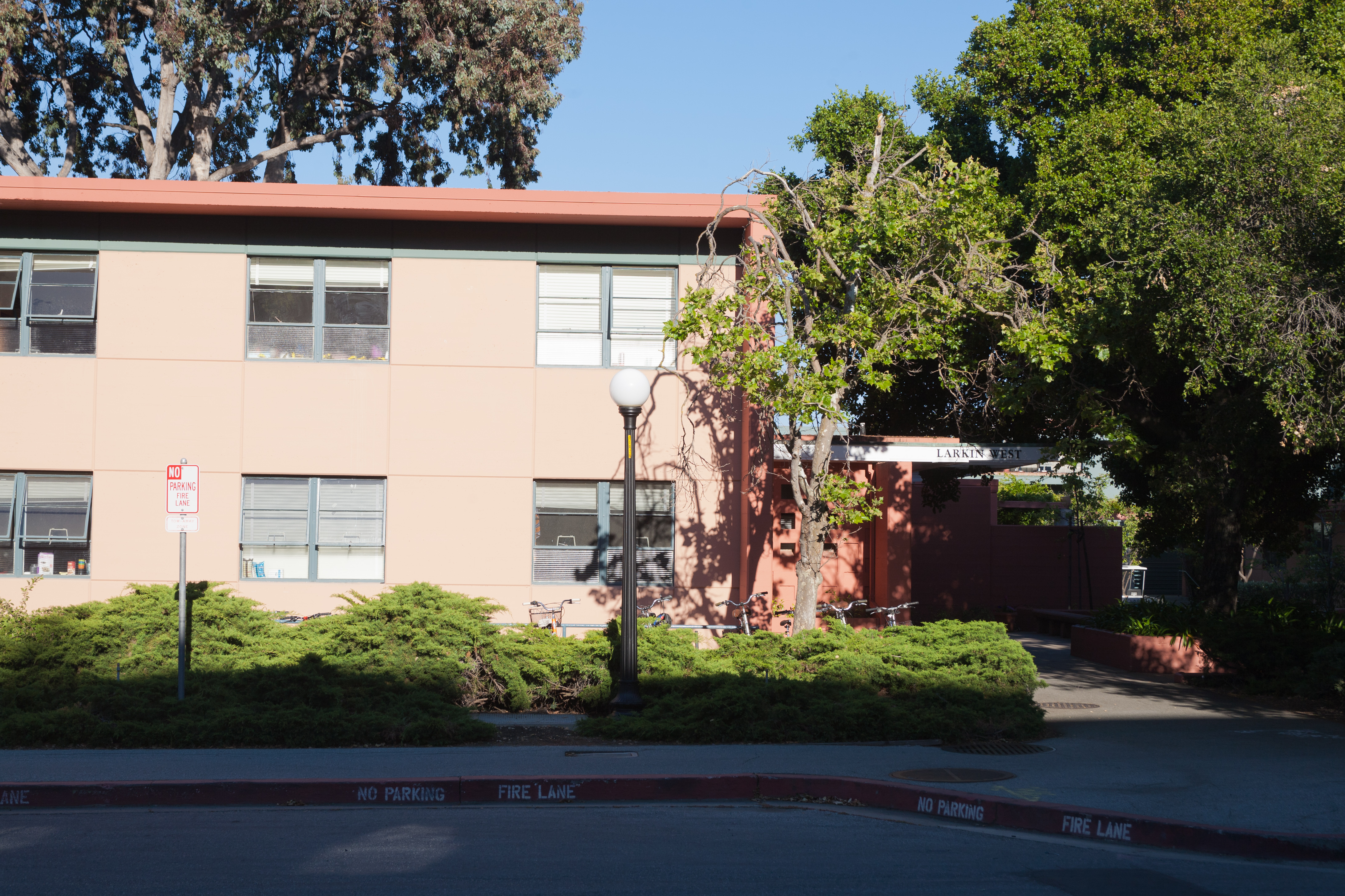 Larkin West facing Galvez Street in Stanford University, Stanford, California.